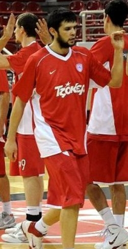 PAOK - Olympiacos